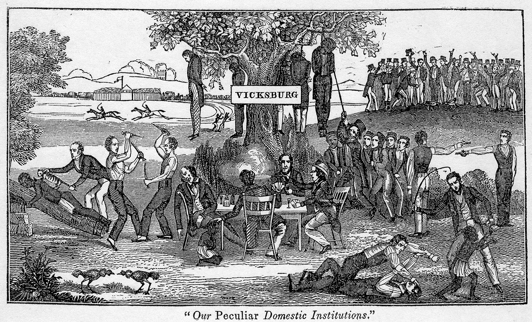 Cropped Illustration Image from the book, Illustrations of the American anti-slavery almanac for 1840, Published: New York, New York, 1840.